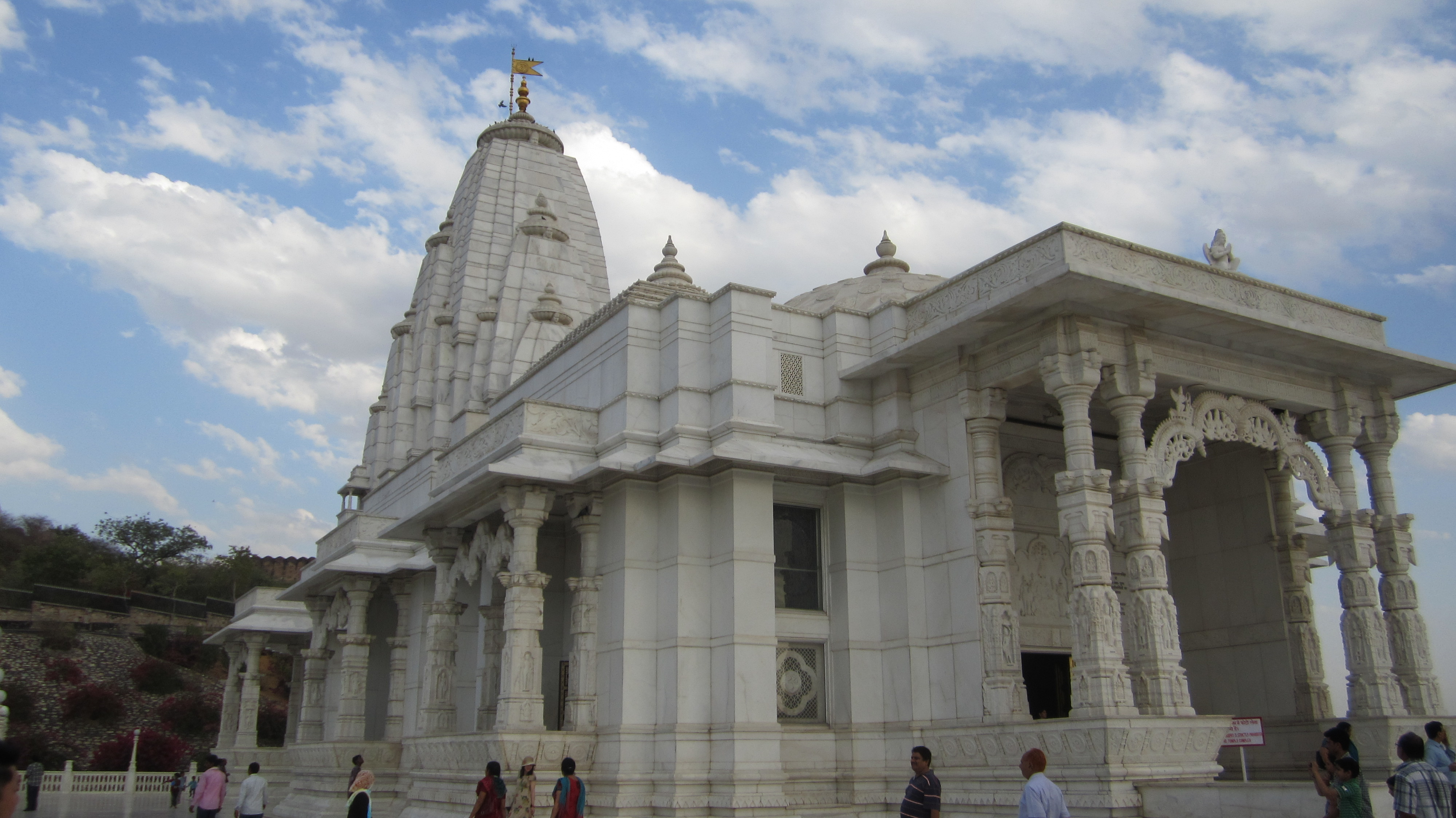 Birla Mandir, a Hindu temple located in Jaipur